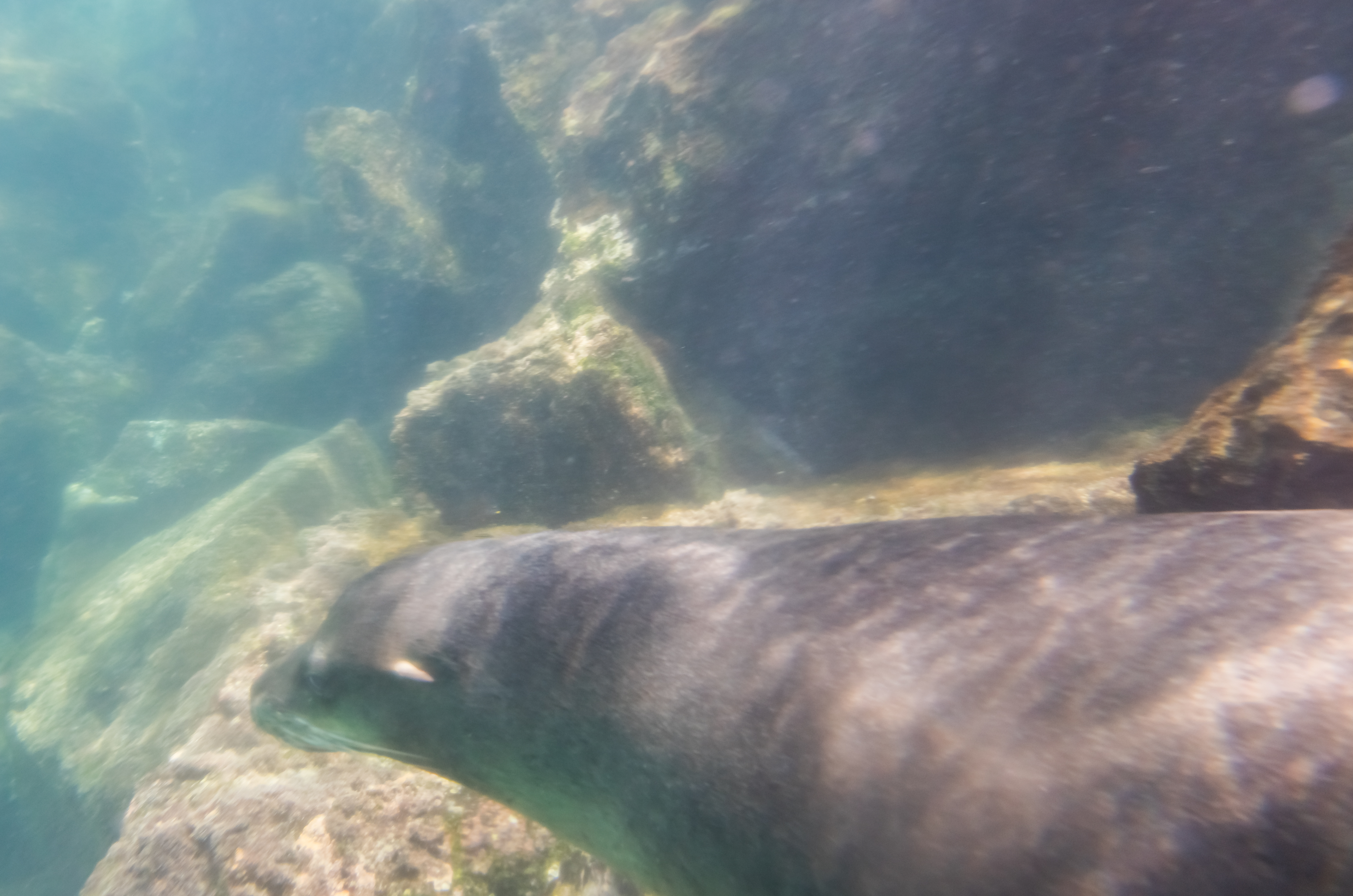 Sea lion (Zalophus californianus wollebaeki), San Cristobal island, Galapagos islands, Ecuador